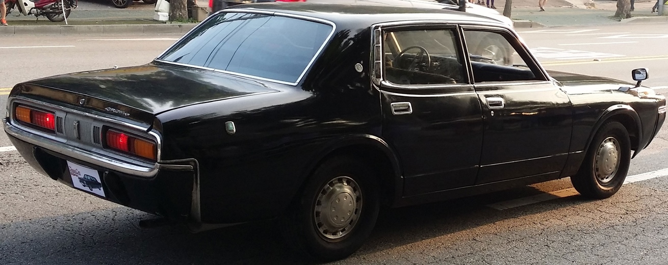 Shinjin Crown